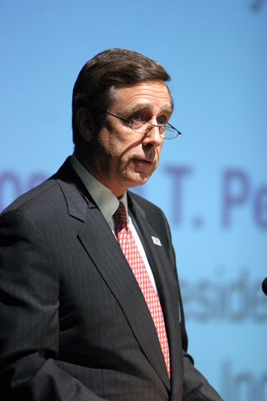 OSAC Co-Chair Joseph T. Petro Addresses OSAC Annual Briefing Washington, DC November 9 and 10, 2005